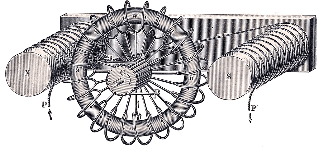 Pacinotti-Grammescher Ring